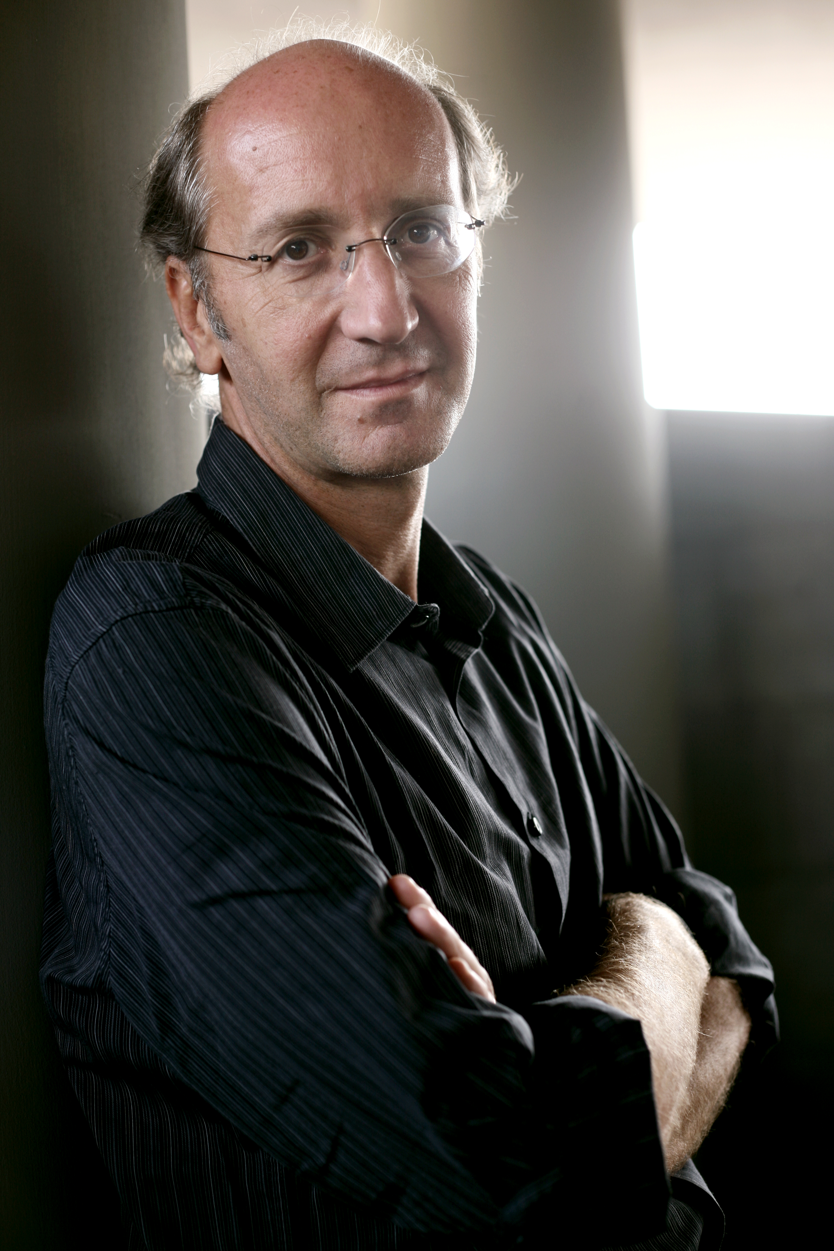 Luca de Gennaro